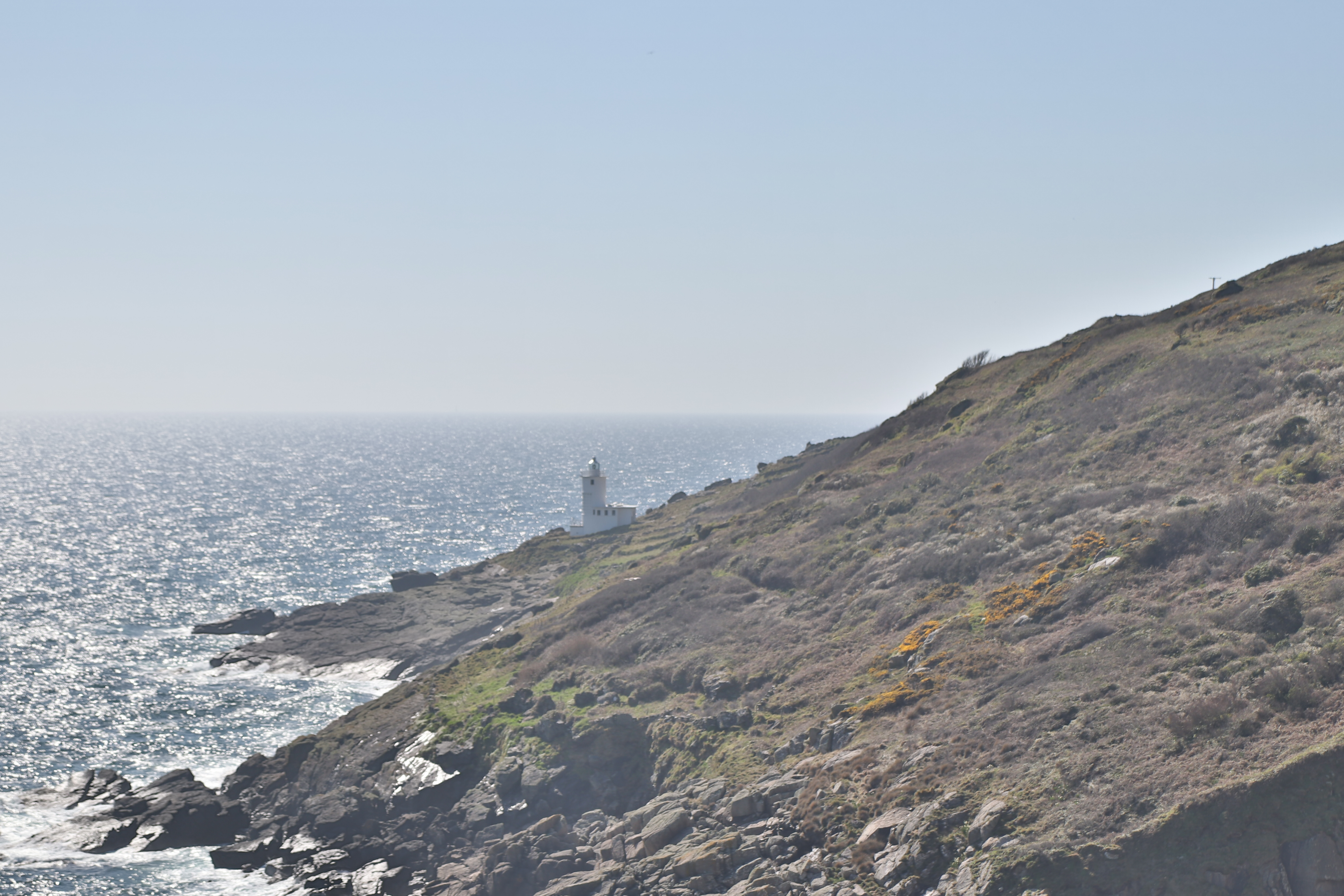 Tatterdoo lighthouse Lamorna Cornwall This photo was taken by Tom Corser and is © Tom Corser 2020. This photo may be reproduced under the terms of the Creative Commons Attribution-ShareAlike 3.0 Unported Licence [1] (unless otherwise stated). Please credit this photo Tom Corser If using this photo, make sure you properly credit and specify the licence that this photo is licensed under. (E.g. "Photo by Tom Corser Licensed under Creative Commons Attribution-ShareAlike 3.0 Unported Licence: If you would like to use this photo under a different license, please contact me via or . Attribution: Tom Corser